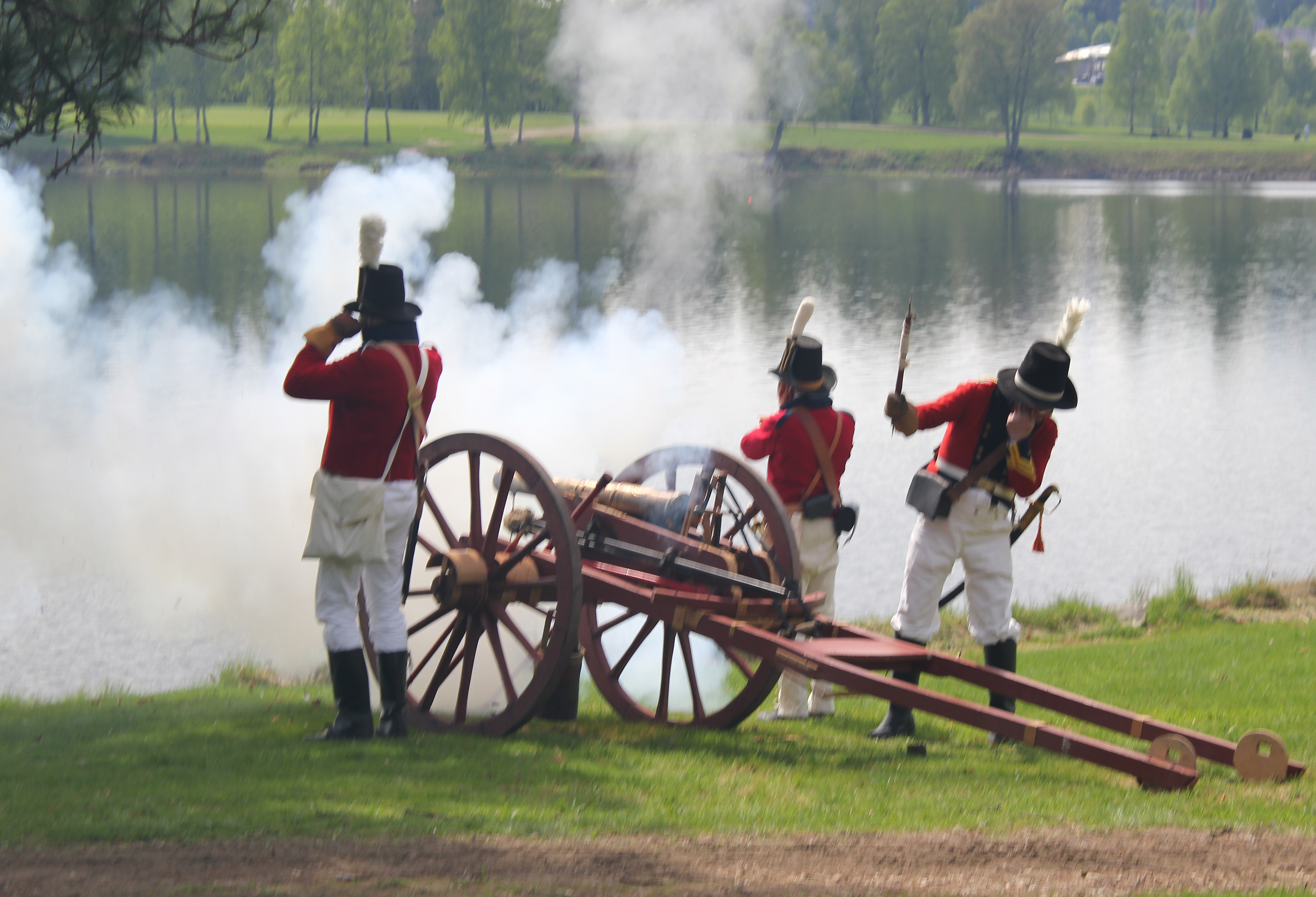 Norwegian Napoleonic re-enactment group firing a salute with an "amusett", a one pound field canon.